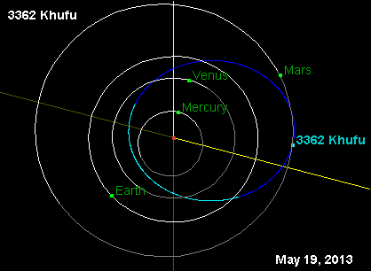 Orbit diagram of Khufu asteroid with object location as of May 19, 2013